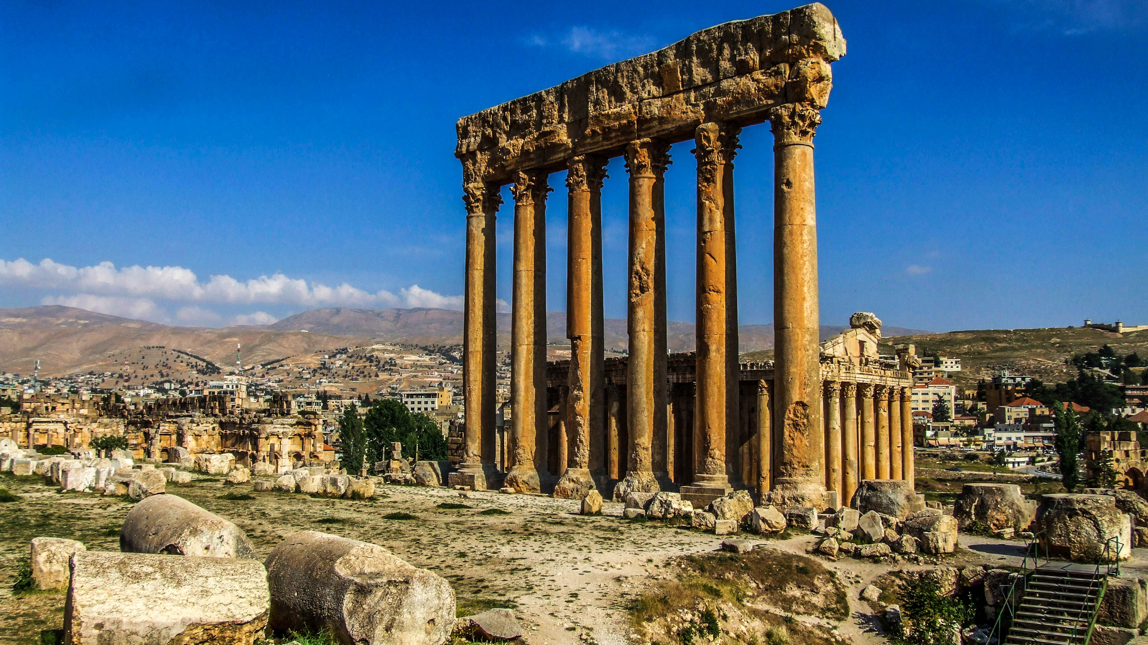 The six remaining columns of the Temple of Jupiter in front of the Temple of Bacchus in front of the town of Baalbek, Lebanon, in 2010. Facing Southwest.